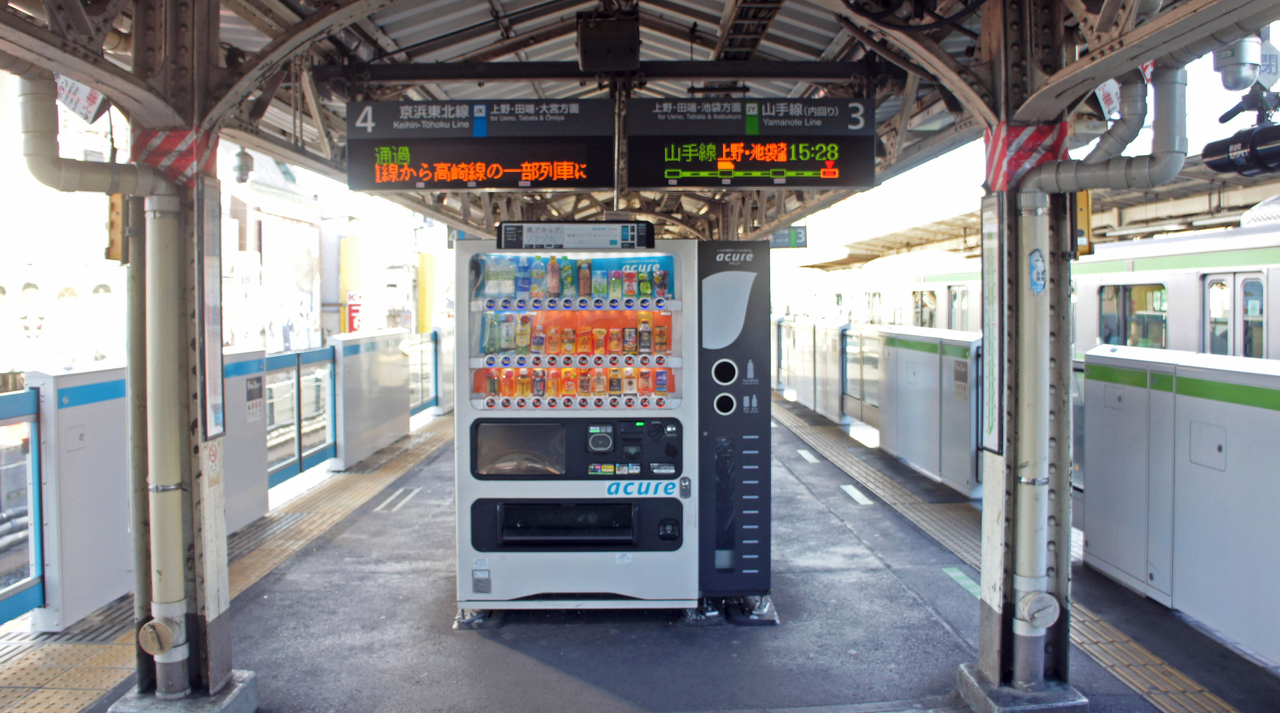 Platform 3・4 of JR Okachimachi Station Sony NEX-3 + E 18-55mm F3.5-5.6 OSS